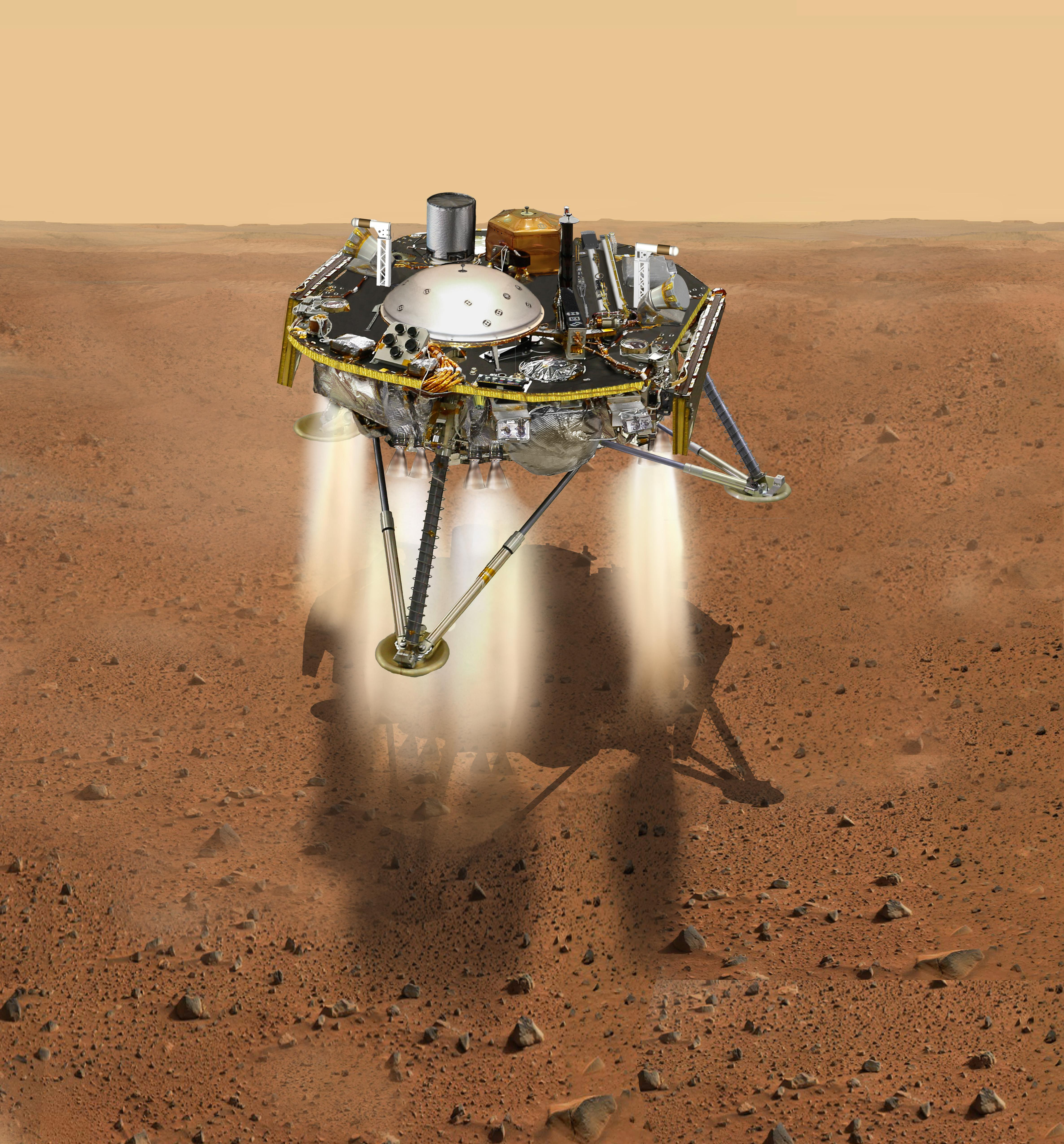 illustration showing a simulated view of NASA's InSight about to land on the surface of Mars. This view shows the top of the spacecraft.